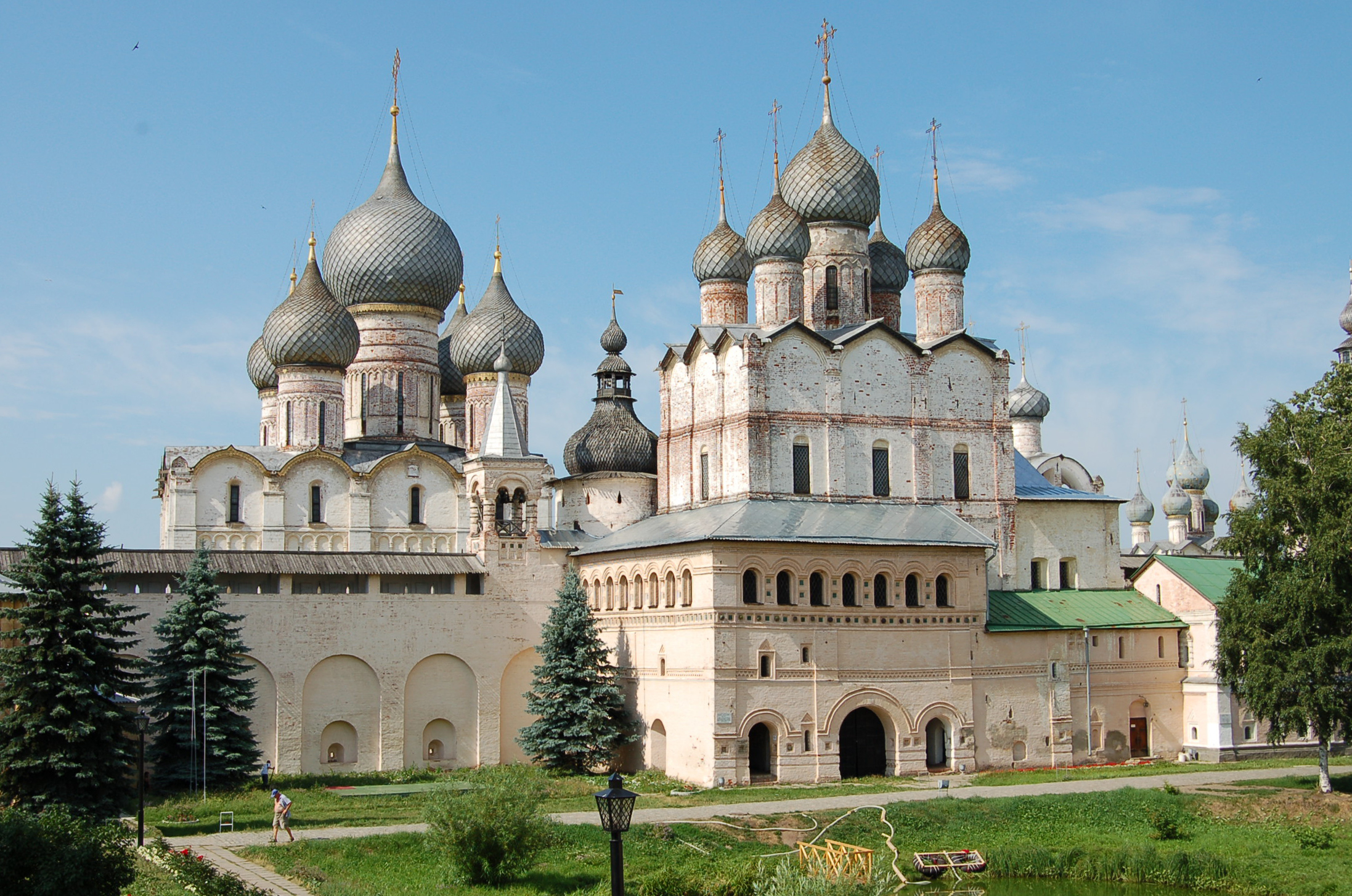 Rostov's 17th-century complex of churches.